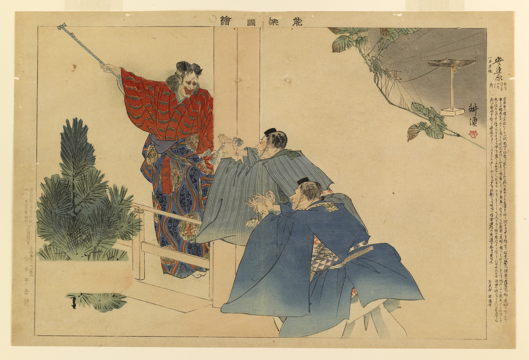 The demoness at left is, in fact, a high-ranking woman who has turned to cannibalism in order to aid the lord of her district. He requires the blood of children as a remedy for a disease from which he suffers. When wandering priests seek refuge from a storm in the old woman's house, they discover a room filled with human bones and splattered with blood. They decide to flee, but the woman returns, assumes a demonic form, and chases them. Kogyo represents the moment when the priests turn and try to exorcize the pursuing demon by chanting invocations and rubbing rosary beads.